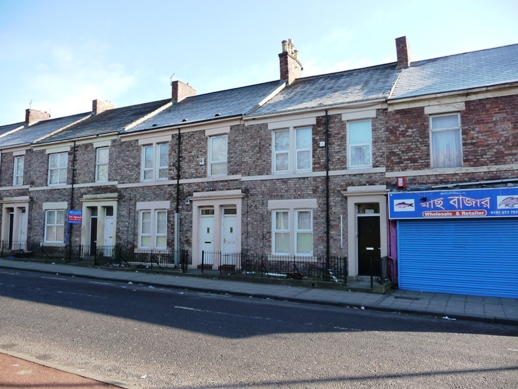 Maisonettes in Beaconsfield Road You can tell they are purpose-built maisonettes, because each downstairs front window is separated by two front doors, one for the upstairs flat and one for downstairs. The shop sells fish, and advertises itself in Bengali as well as English.